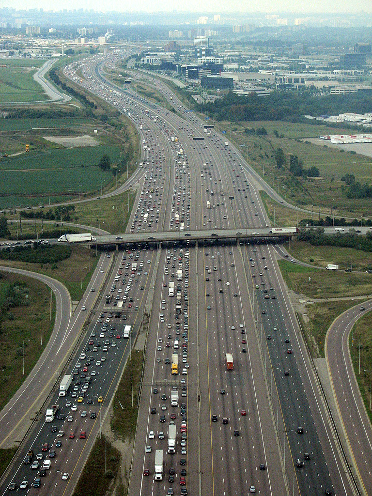 The 18-lane wide Highway 401 south of Toronto Pearson International Airport (YYZ) in Mississauga, Ontario. This is the widest point of the highway.